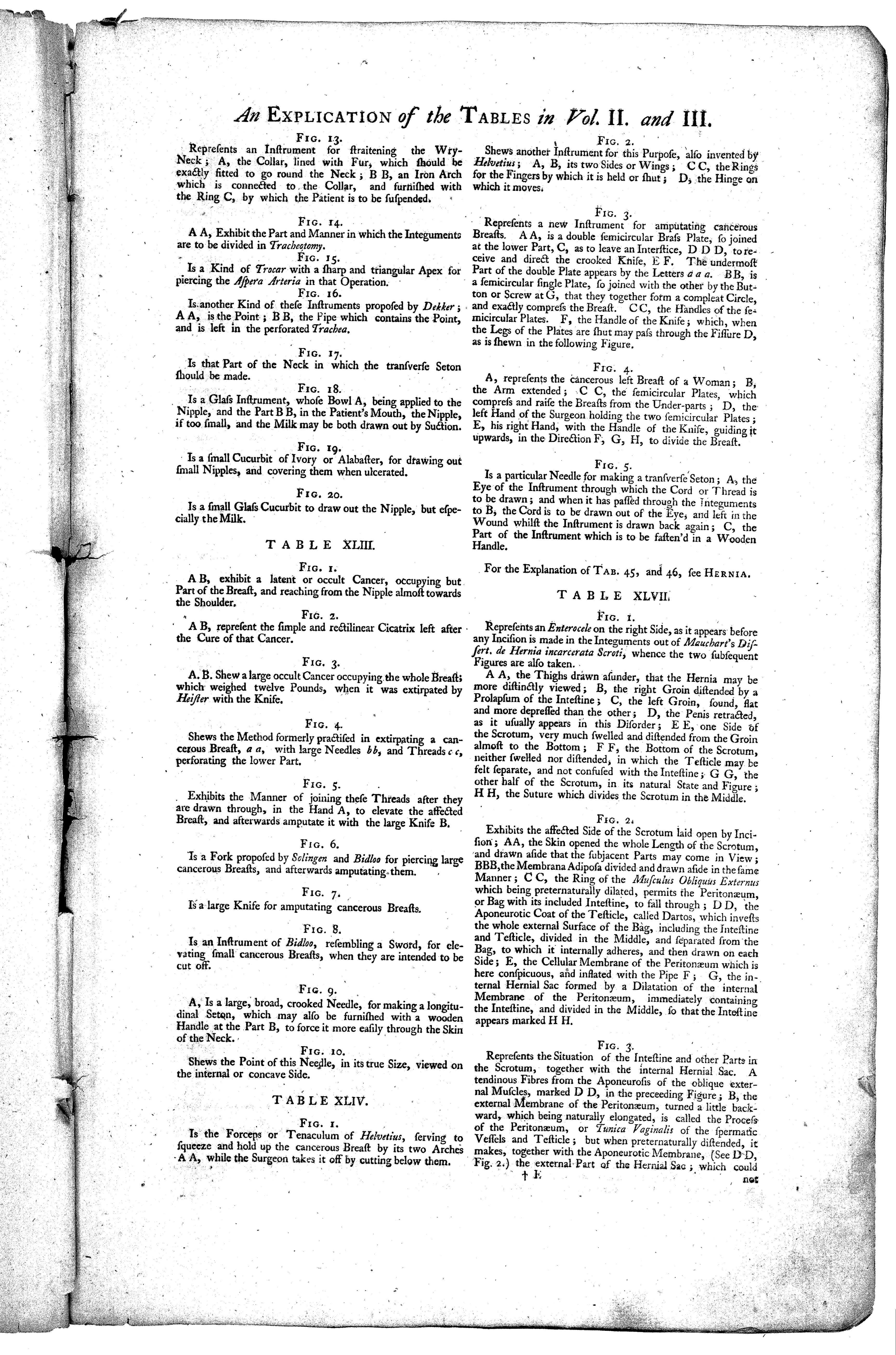 James's medical dictionary. Explanation of the tables in Vol. II and Vol. III; explanation of tables XLIII and XLIV. Wellcome Images